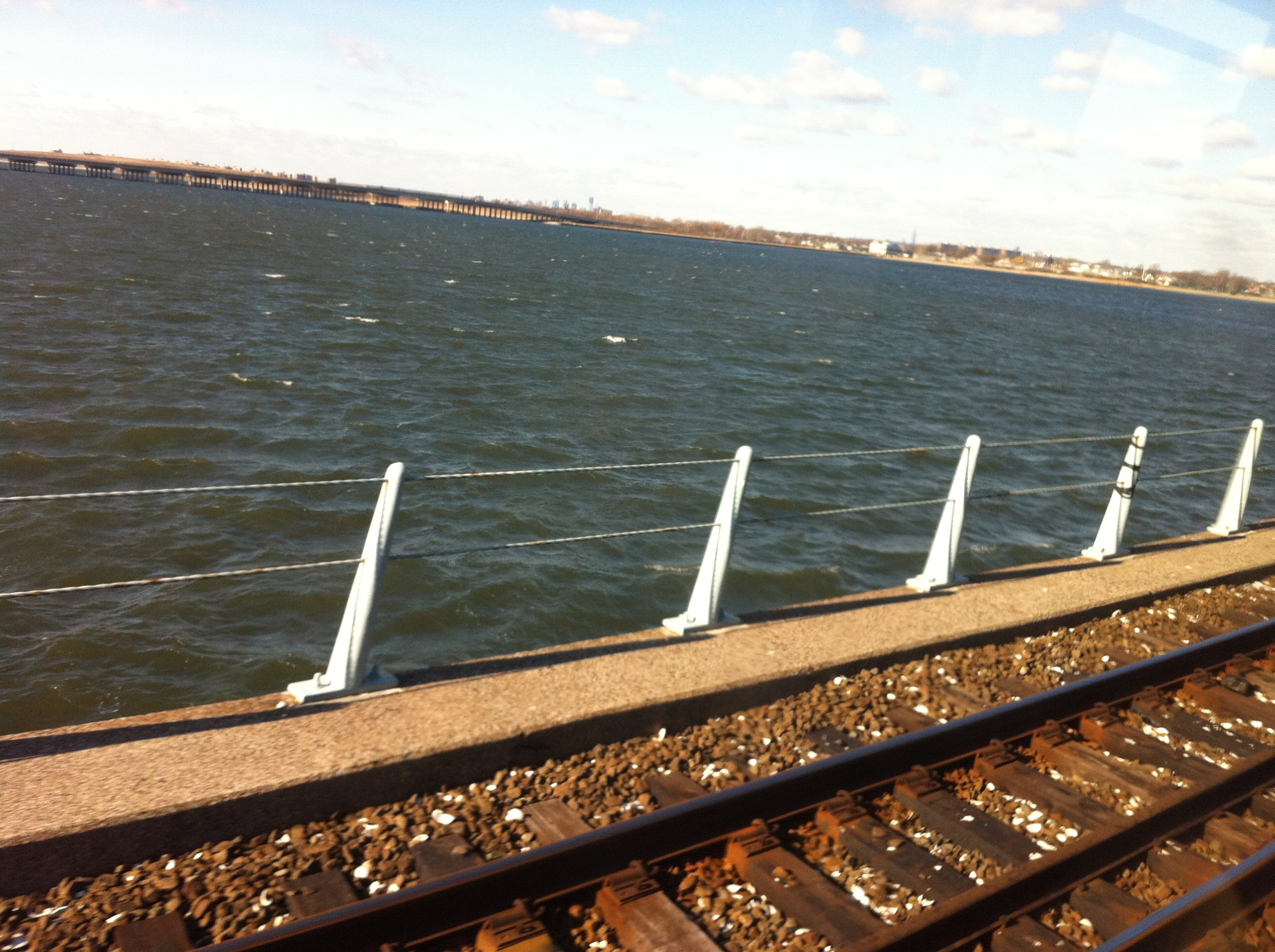 A headed to Howard Beach-JFK.